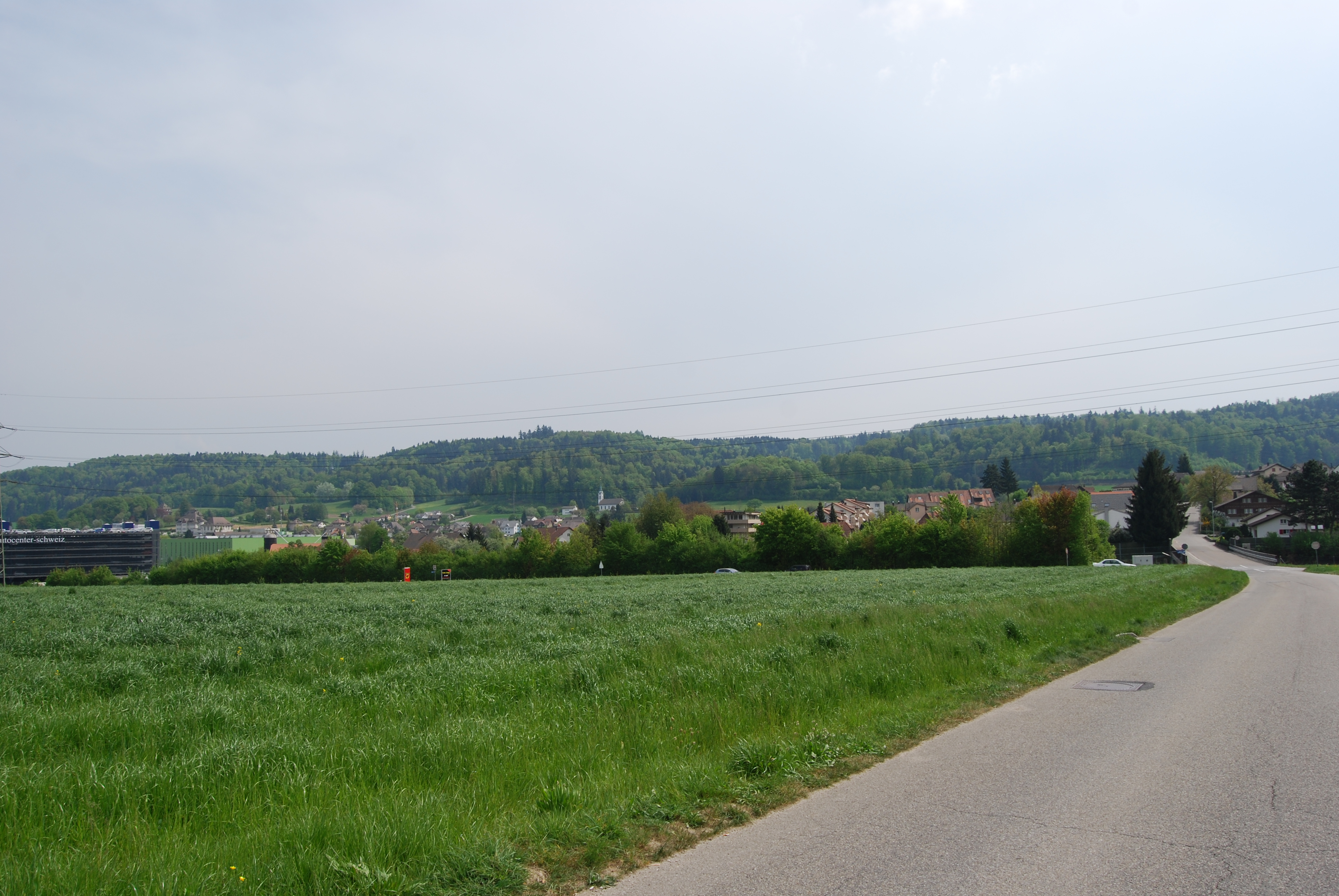 Safenwil, canton of Aargau, SwitzerlandEsperanto: Safenwil, Kantono Argovio, Svislando